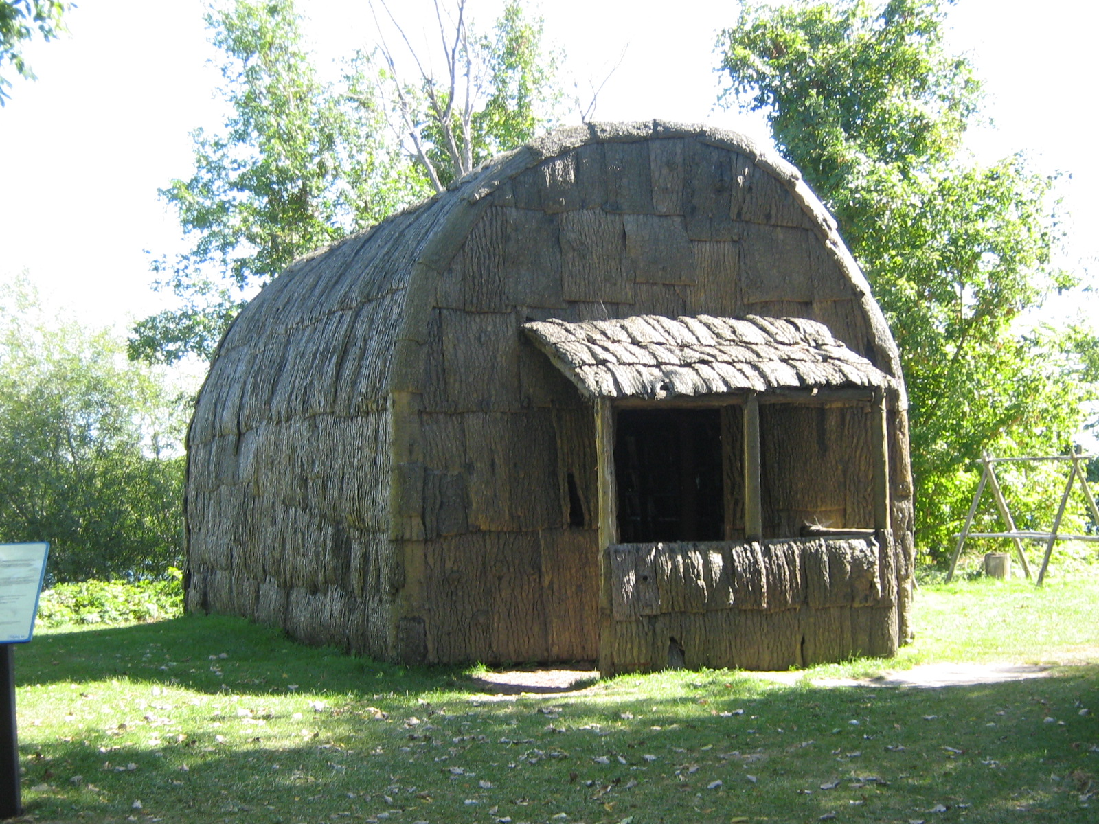 Reconstitution of a long house Grosbois island, in the Îles-de-Boucherville National Park